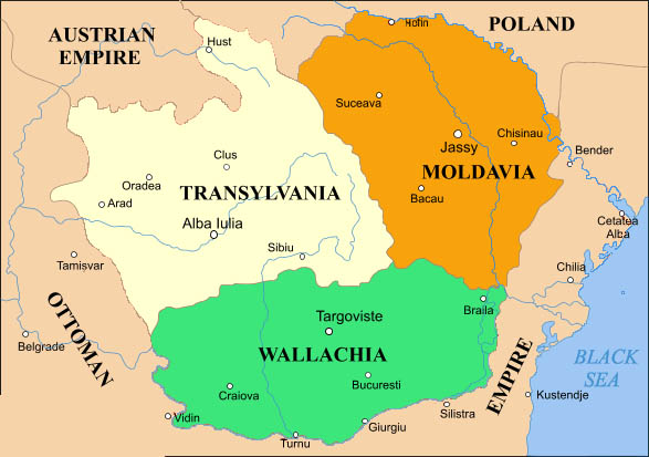 Romania's territory, map showing the period 1484-1672